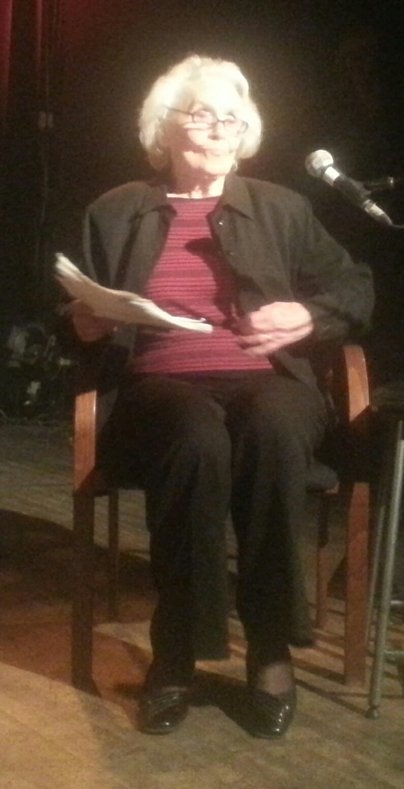 Françoise Faucher photographed in Montreal, Quebec, Canada at the Cabaret Lion D'Or.